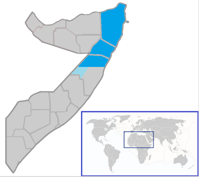 Current map of Puntland.